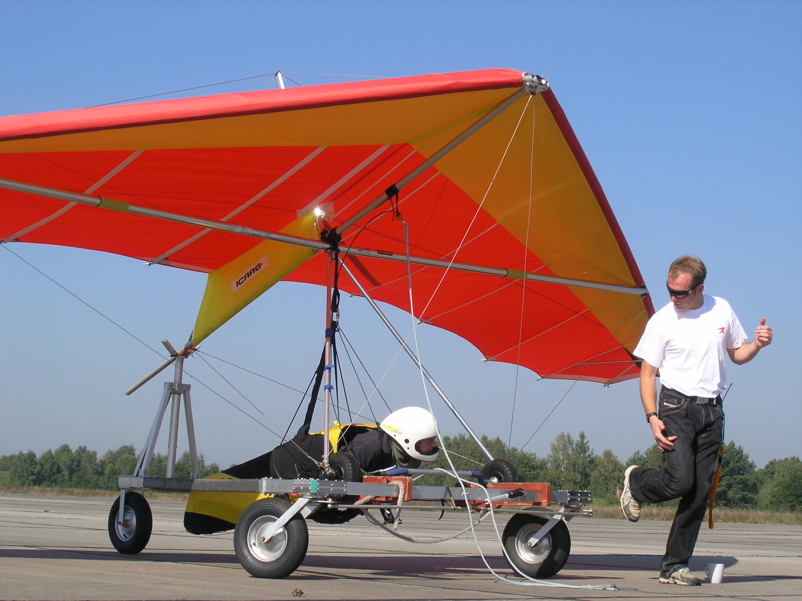 Instructor teaching a student how to start a hang glider by UL tow. The student is ready to launch in prone position with the glider sitting on a three wheeled trolley. Date: September 2005 Place: Altes Lager, Germany Instructor: Andreas Becker, Drachenflugschule Altes Lager Student: Olaf Strauch Photographer: Kai-Martin Knaak Copyright under GFDL granted by Kai-Martin Knaak